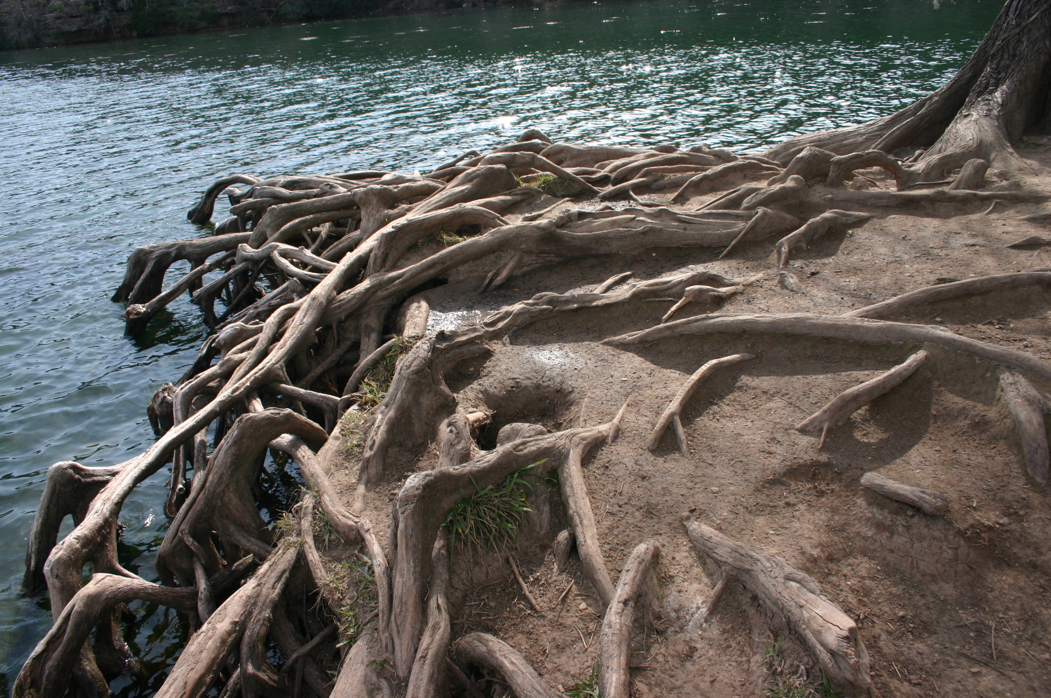 Taxodium distichum tree roots retained soil that would otherwise have been eroded.